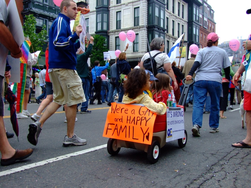 Wagon with poster "We're a GAY and HAPPY FAMILY"